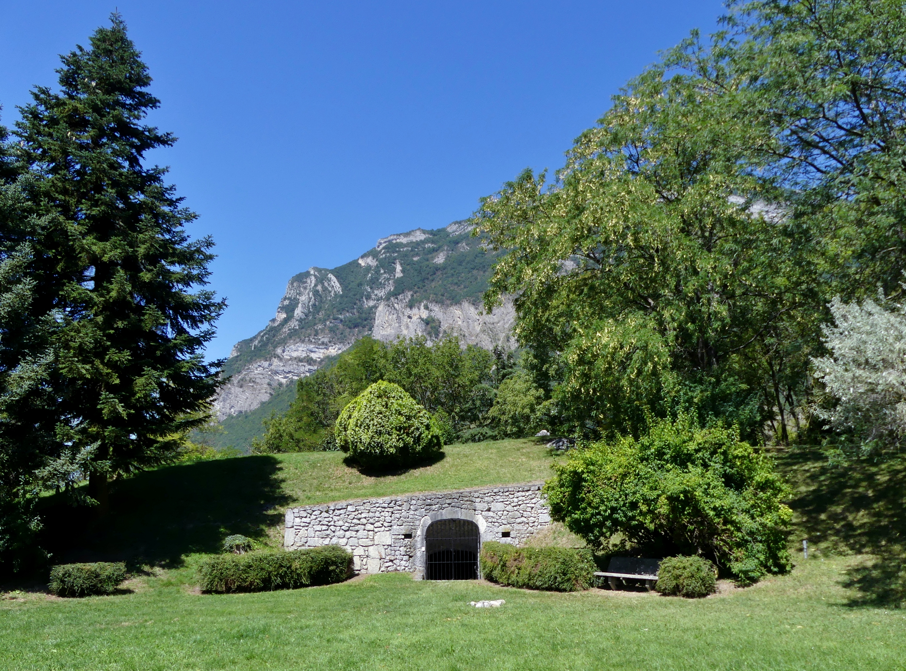 Sight of a vestige of the old fortress demolished, on the hill of Montmélian, in Savoie, France.